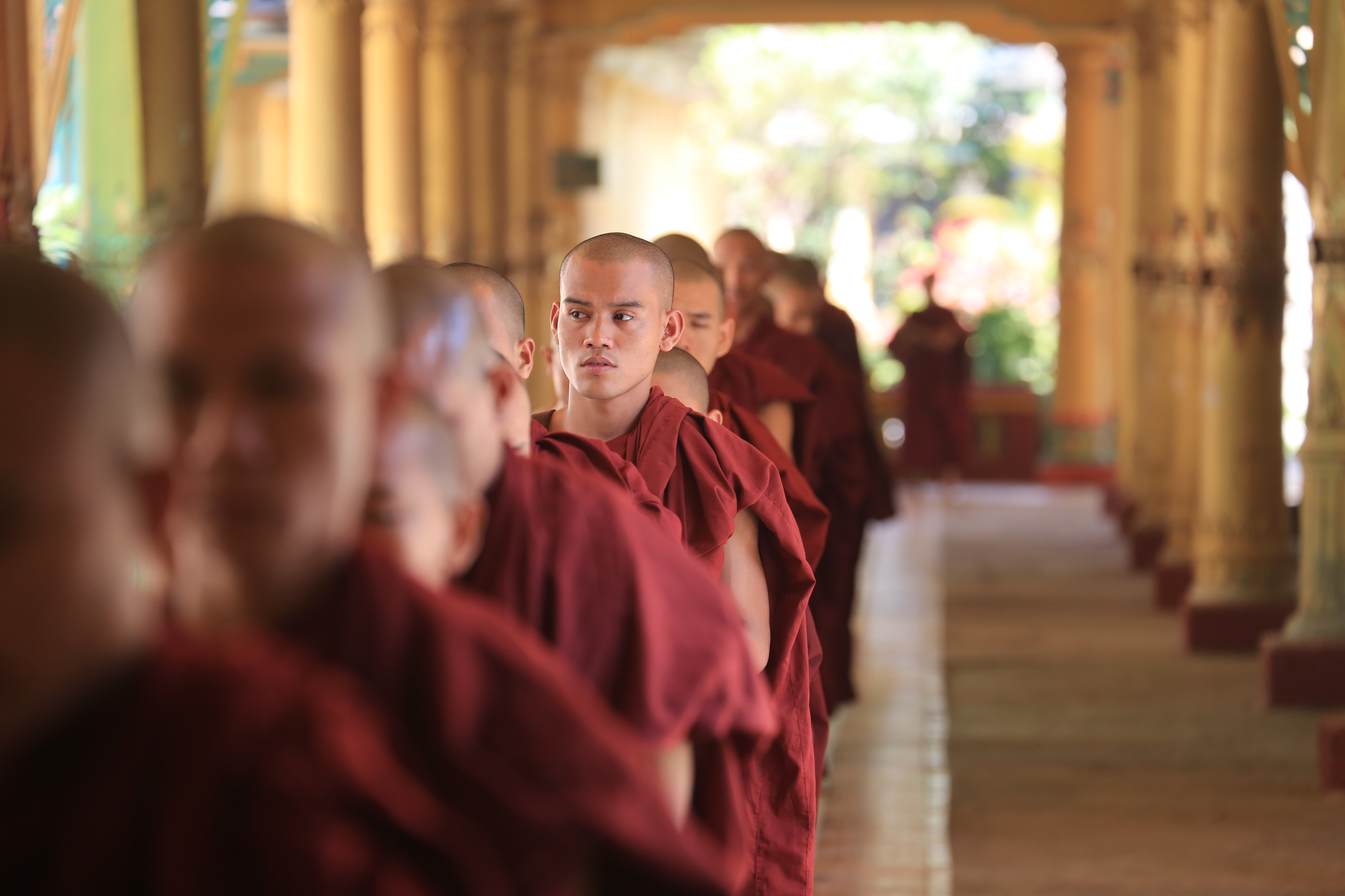 Buddhist monks in queue for the meal at the monastery Kha Khat Wain Kyaung in Bago in Myanmar